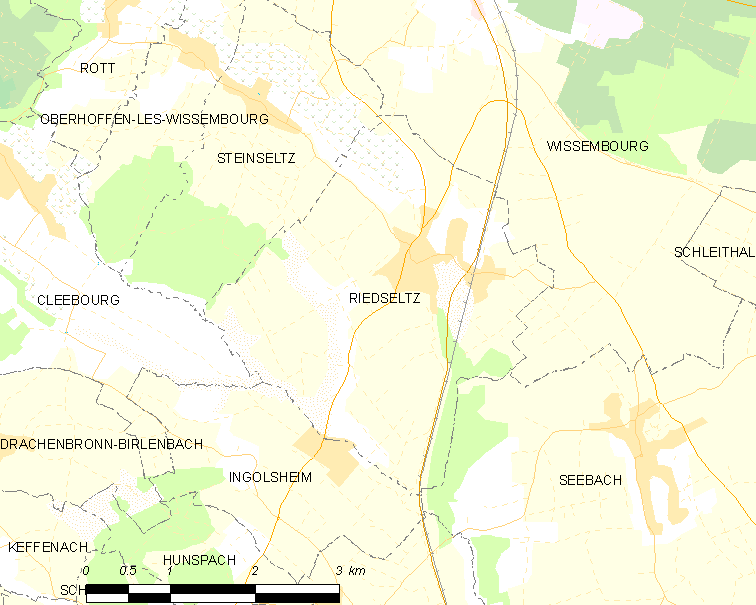 Map of French municipality